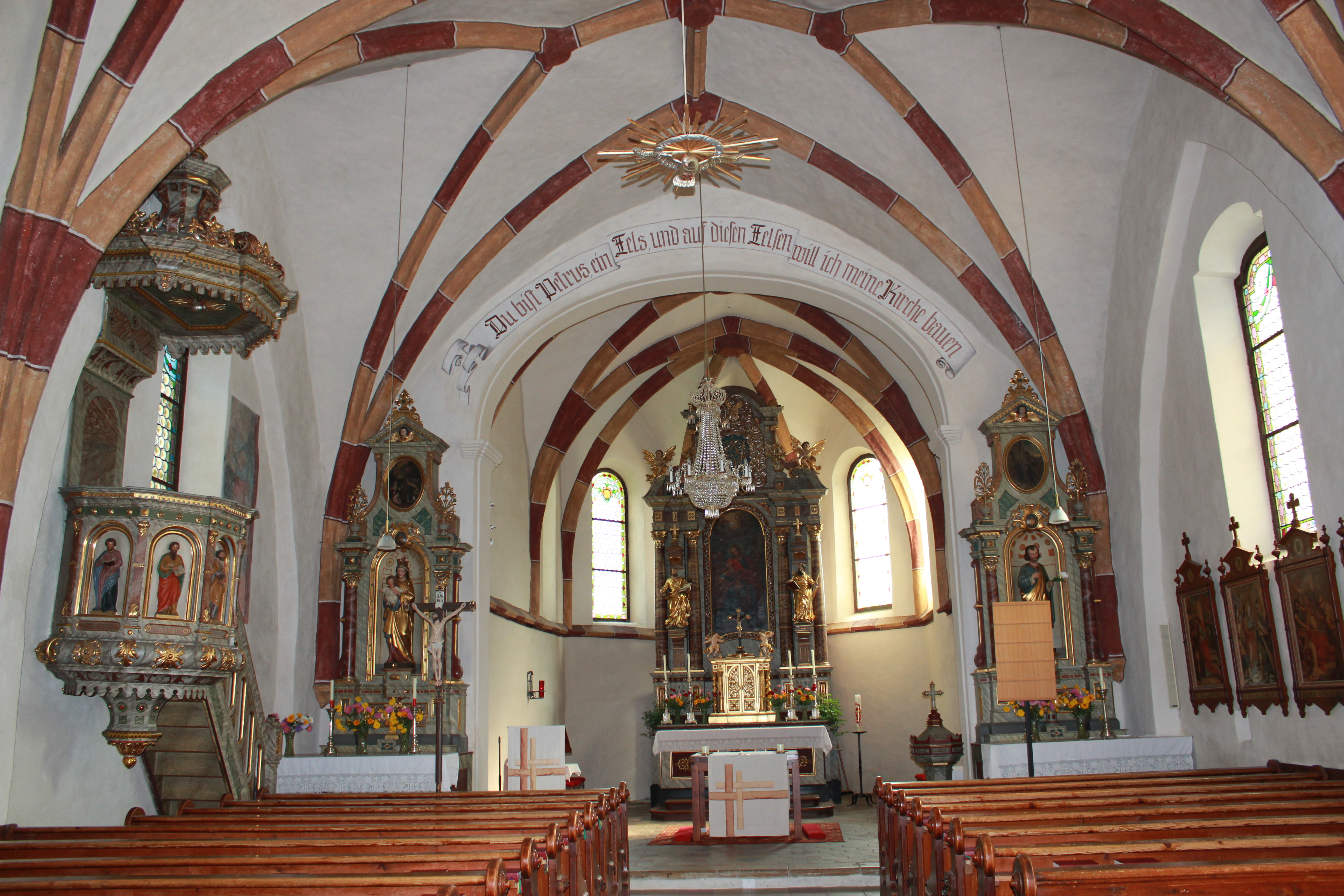 Church in Rangersdorf